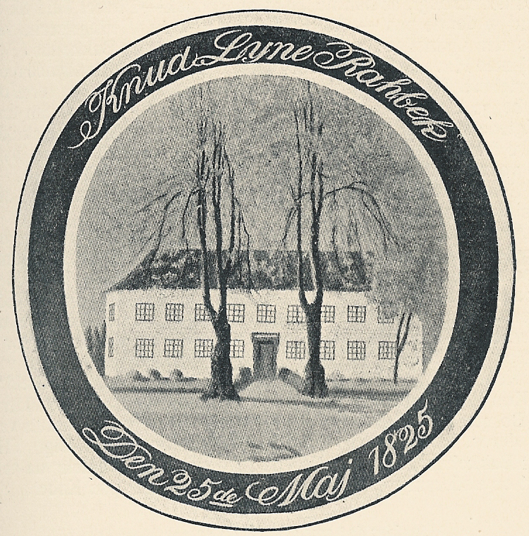 Rahbeks skydebanetavle, forestillende Gamle Bakkehus' hovedfløj, den østre der vendte mod København.